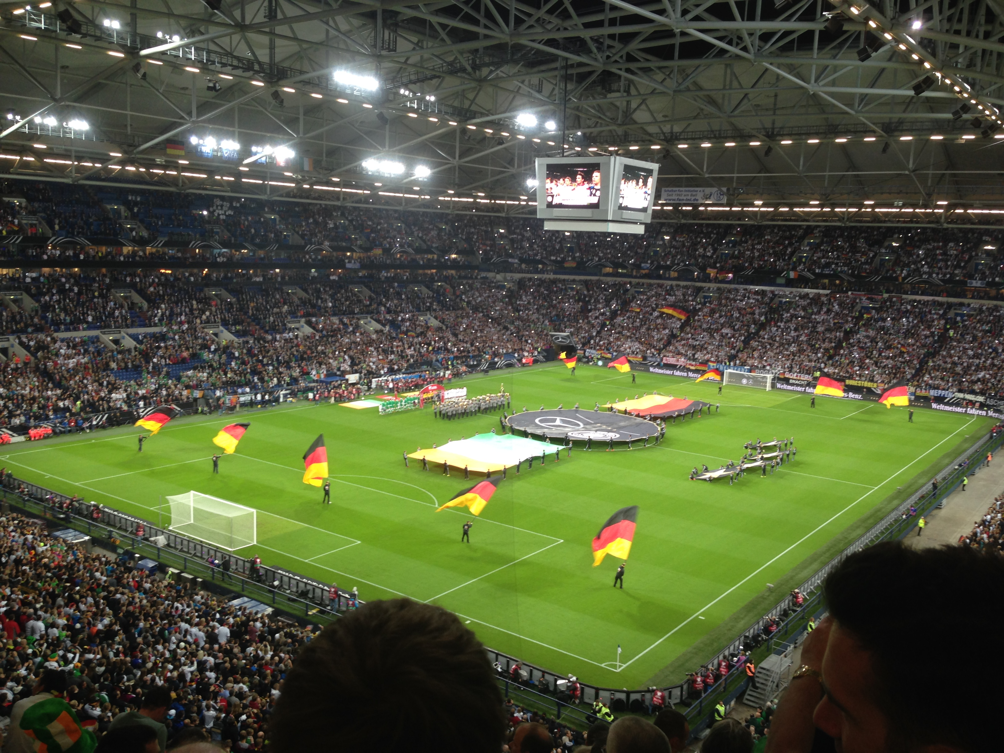 Germany -v- Ireland in the Veltins-Arena, Gelsenkirchen... the match finished 1-1.